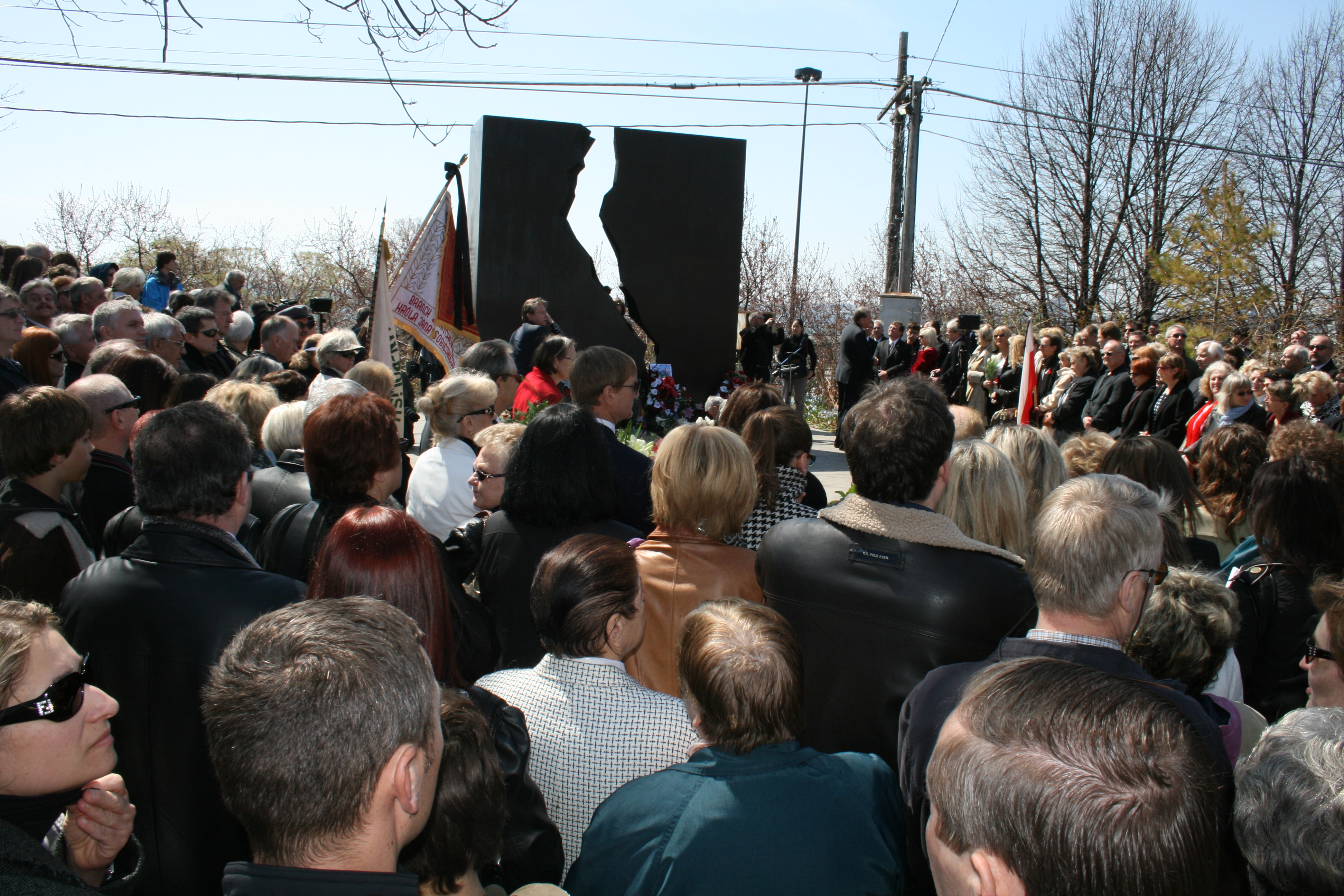 Crowds of Poles gathered in Toronto at the Katyn Memorial April 10, 2010. Just few hours after President of Poland Lech Kaczyński and his wife died when their plane crashed in Russia en route from Warsaw to attend an event to mark the 70th anniversary of the Katyn massacre.